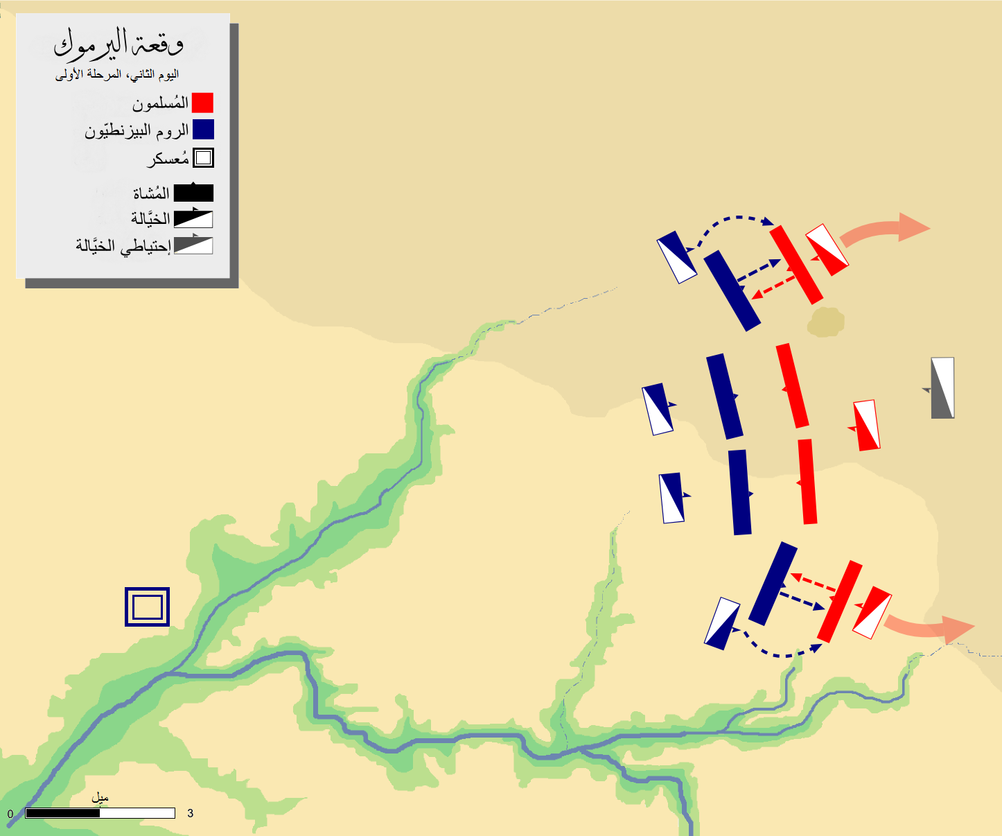 Battle_of_Yarmouk-day-2_phase-1